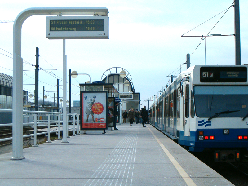 This picture shows the Amsterdam metro station Zuid/WTC in the Netherlands.